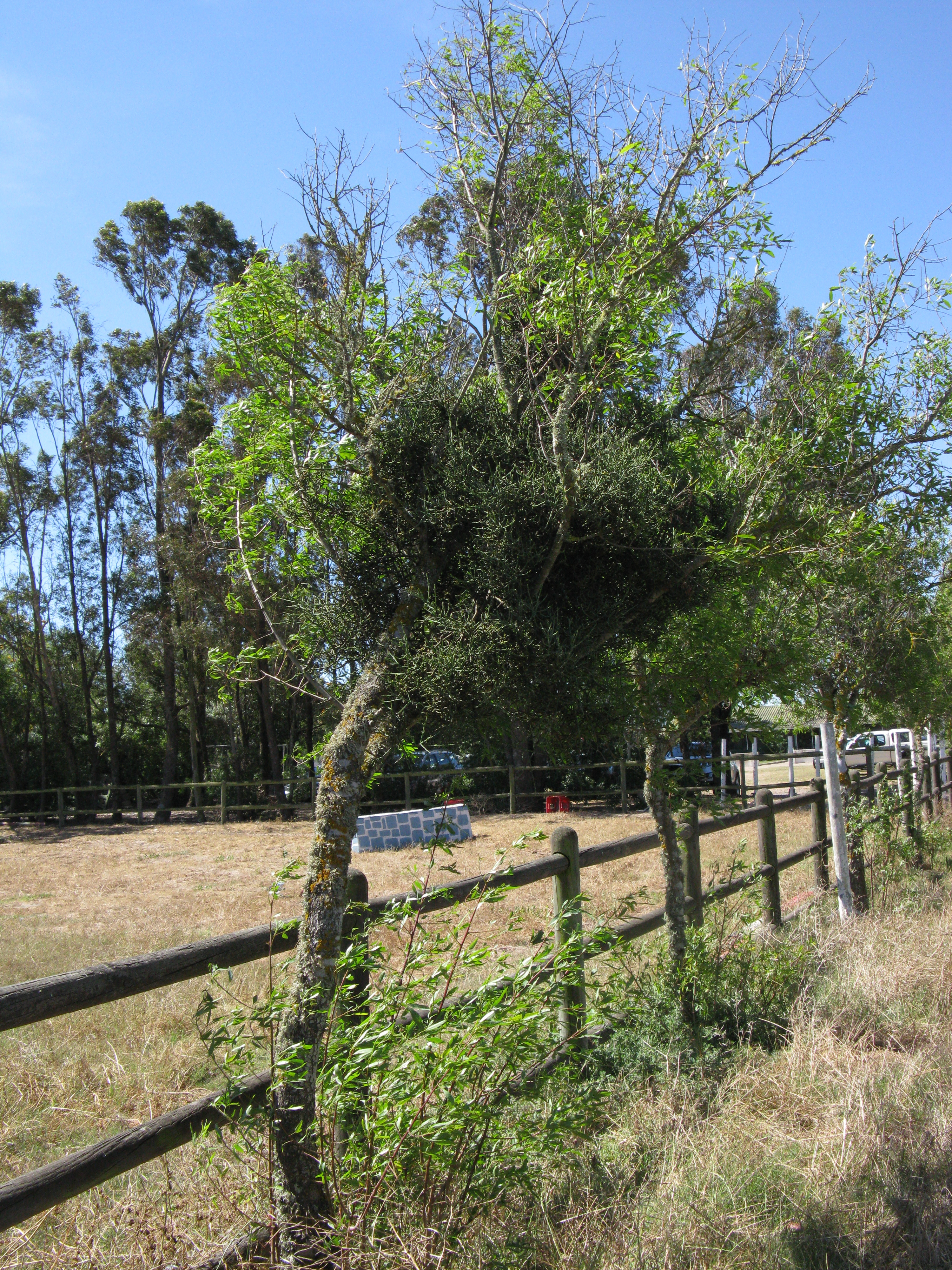 Viscum capense is a South African mistletoe with vestigial leaves and with branches that sprout largely at right angles, creating a dense bush that is ecologically important in its region. Its berries are important forage for a number of species of birds